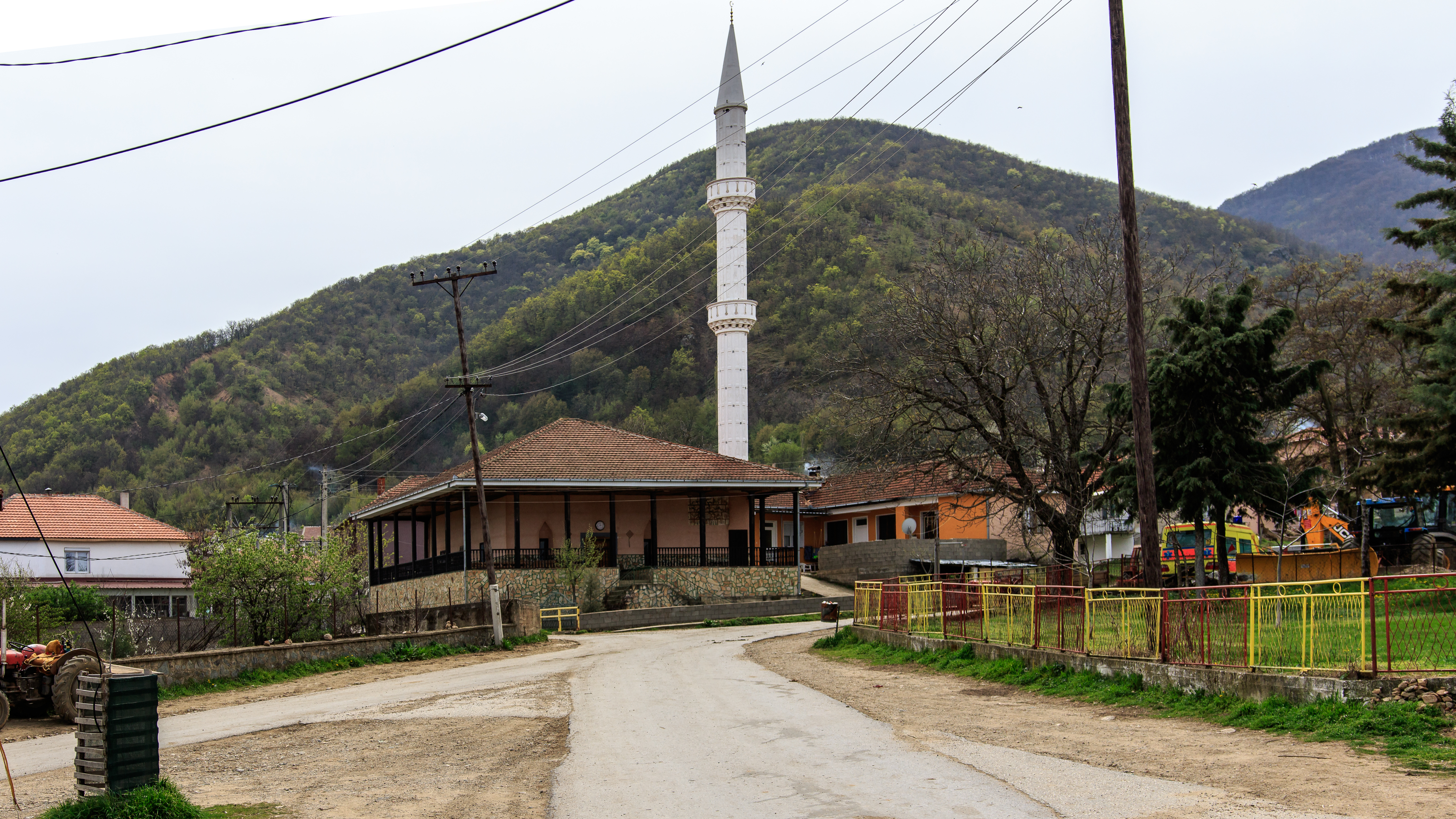 Mosque in the village Konče